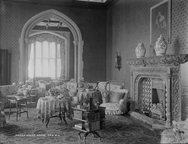 Photograph taken between 1880 and 1914 Format: glass negative Part of: National Library of Ireland Lawrence Collection. For more photographs in this collection see National Library of Ireland catalogue: Reference number: L_ROY_05316